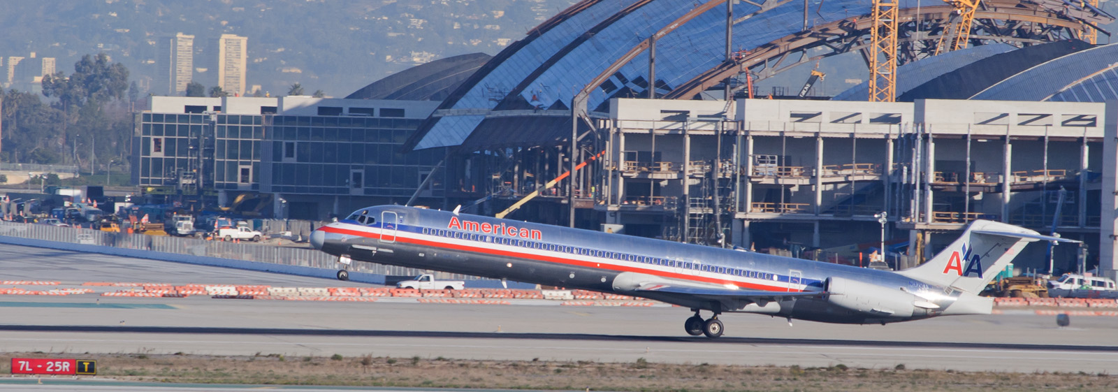 For an MD-80, this is a very long takeoff roll. This is American 2428 to Dallas-Ft. Worth. This aircraft had originally been built in 1999 for TWA, as part of its last-minute fleet renewal. Badly hammered by CEO Carl Icahn's pillaging in the 1980s and 1990s, TWA had to scale back its operations and make itself over as a primarily domestic airline; Boeing 757s and 717s joined the fleet alongside MD-80s to replace Boeing 727s and other aging models. Despite this effort, TWA filed for its third bankruptcy protection in 2001, and was saved in the form of a merger with American; by December 2001, TWA ceased to exist. N972TW, McDonnell-Douglas MD-83